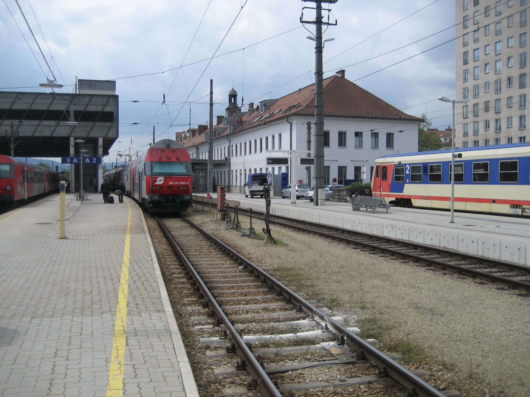 train station Krems an der Donau in Lower Austria